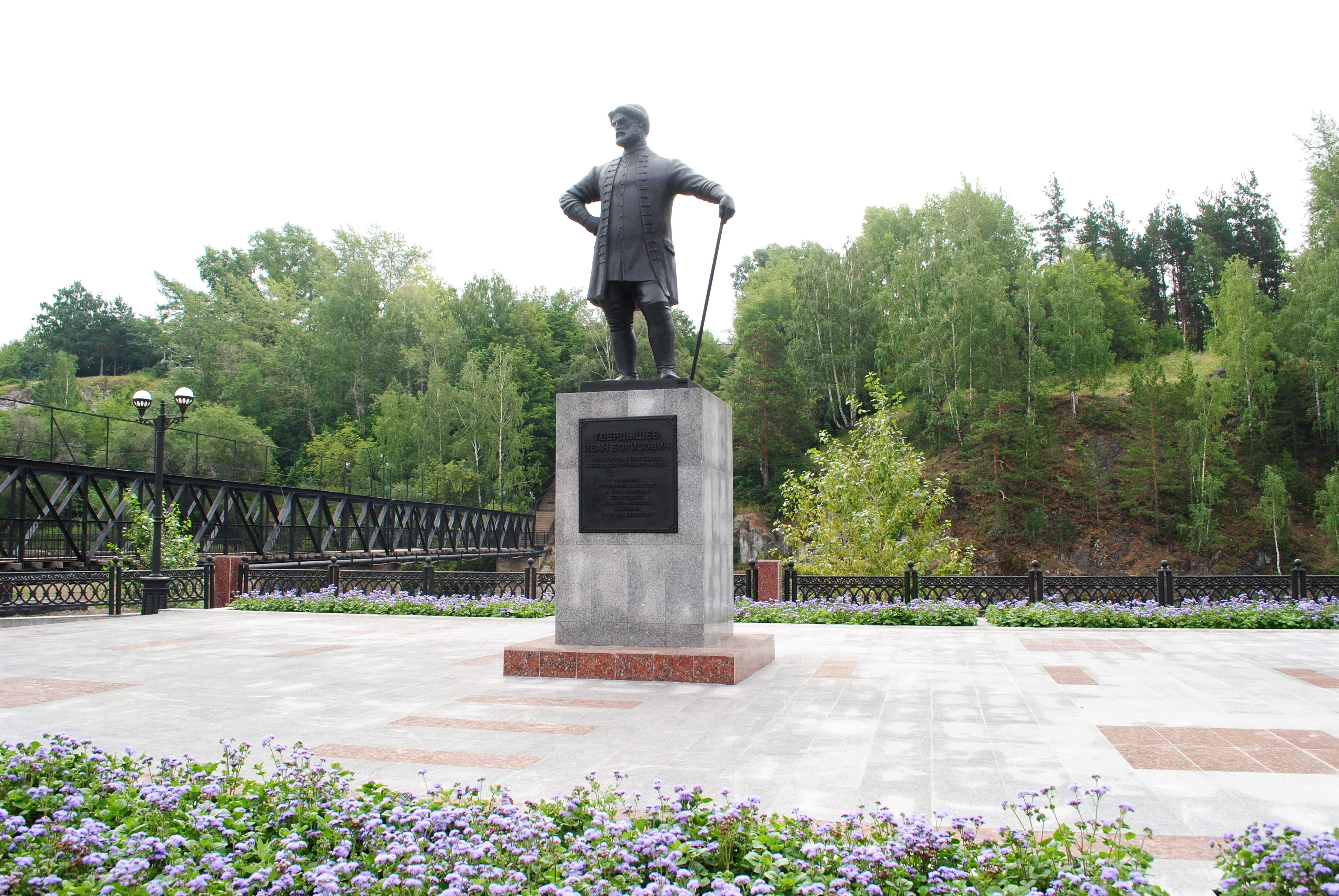 Tverdyshev Ivan Borisovich monument in Beloretsk